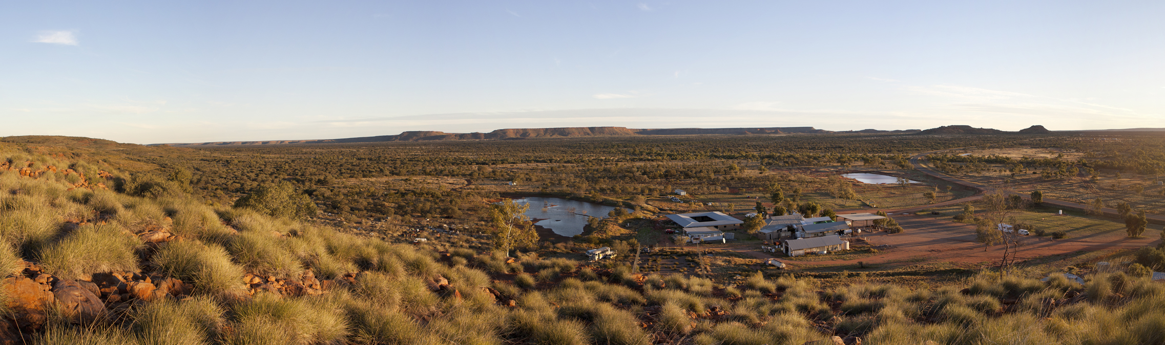 Panorama of Barrow Creek Roadhouse and surrounds